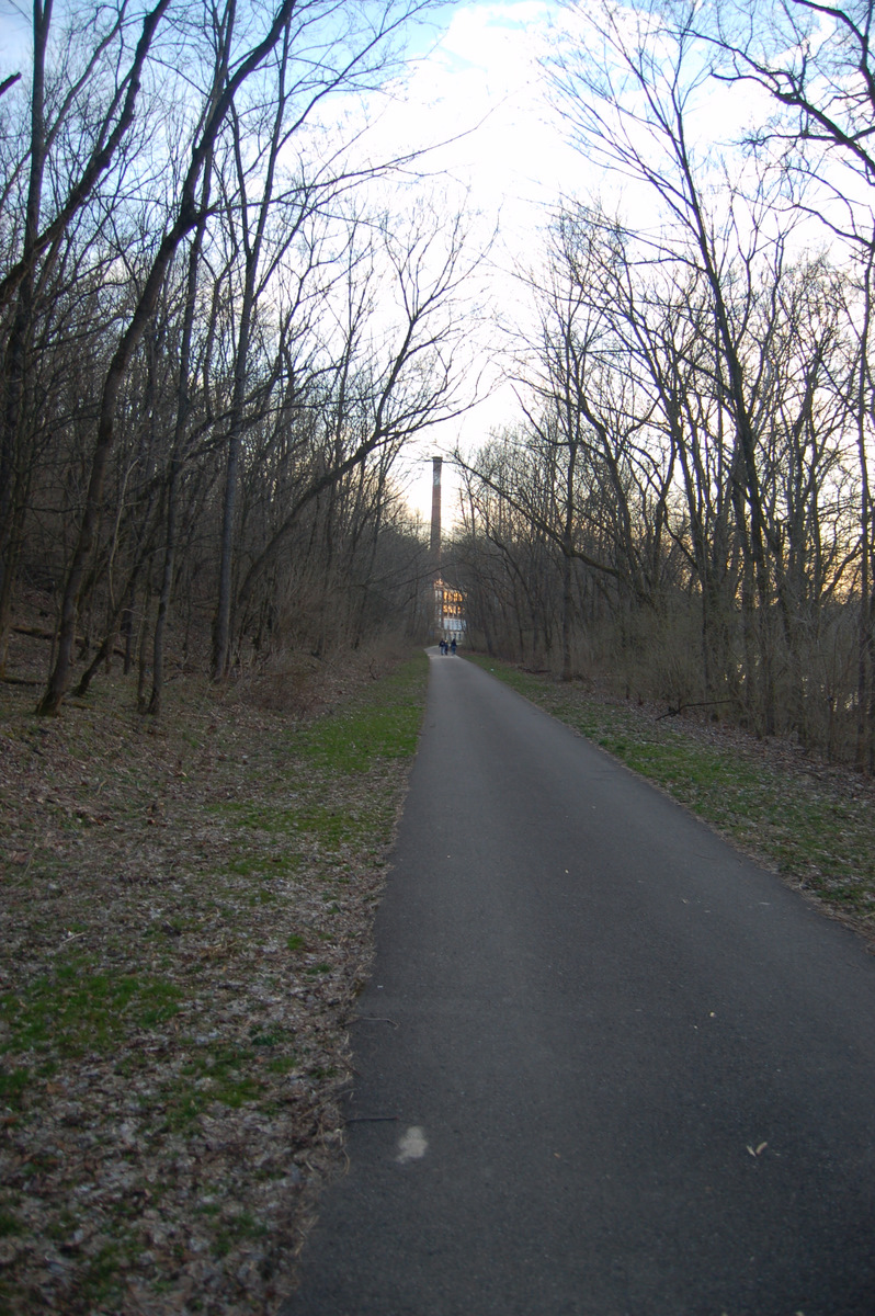 The Little Miami Scenic Trail looking southward at the former Peters Cartridge Factory in Fosters.